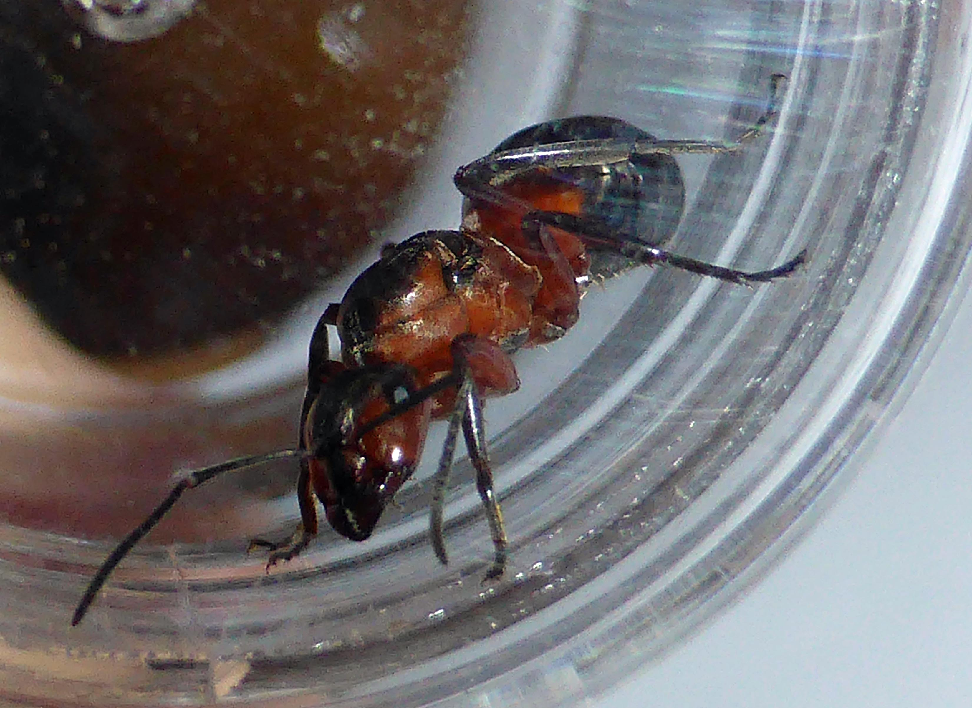 Queen Formica aff. pratensis from Haute-Savoie, France.